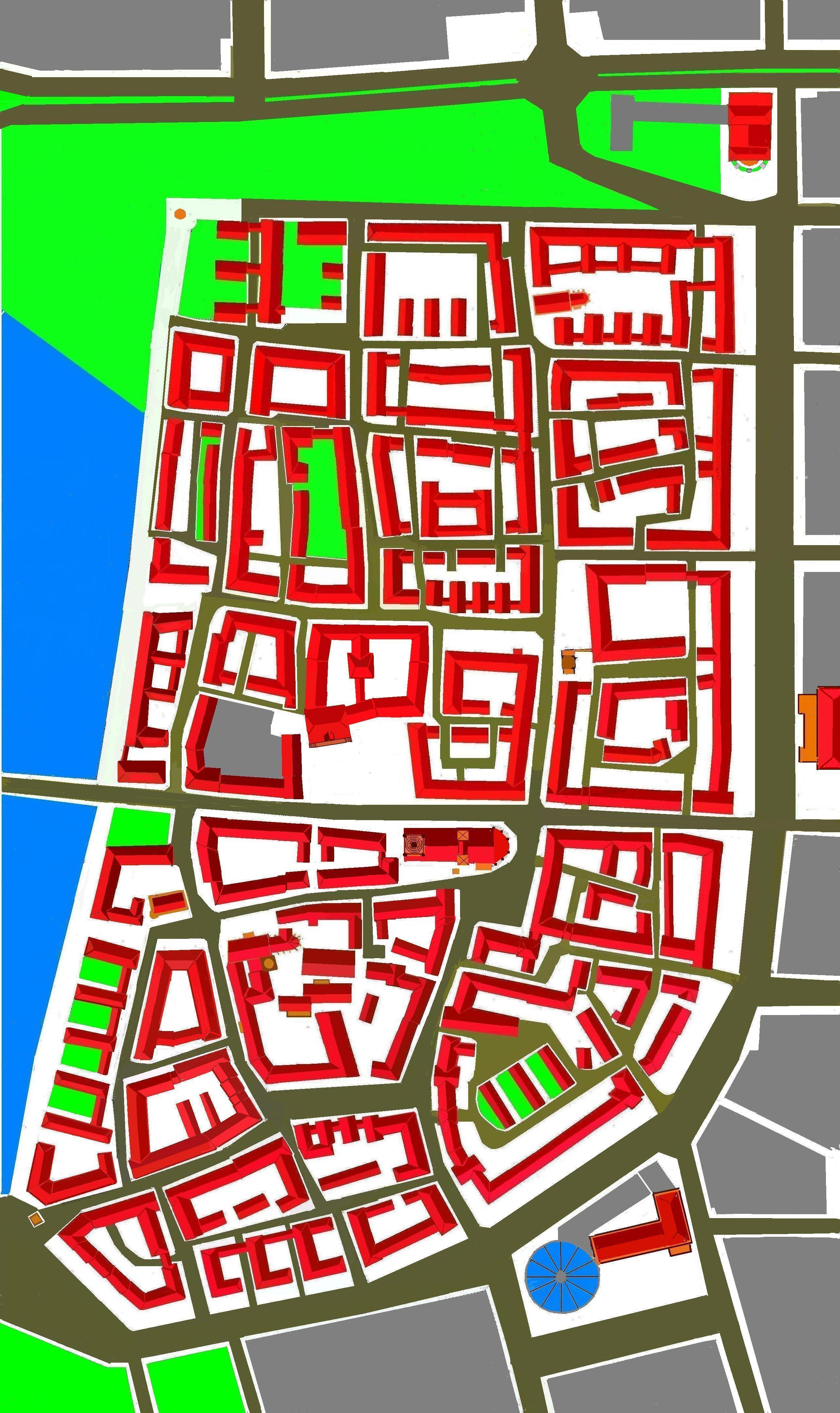 Heilbronn Aufbauplan der Altstadt 1948 Ergebnis der Planer Hans Volkart, Karl Gonser und des Wettbewerbs.PNG